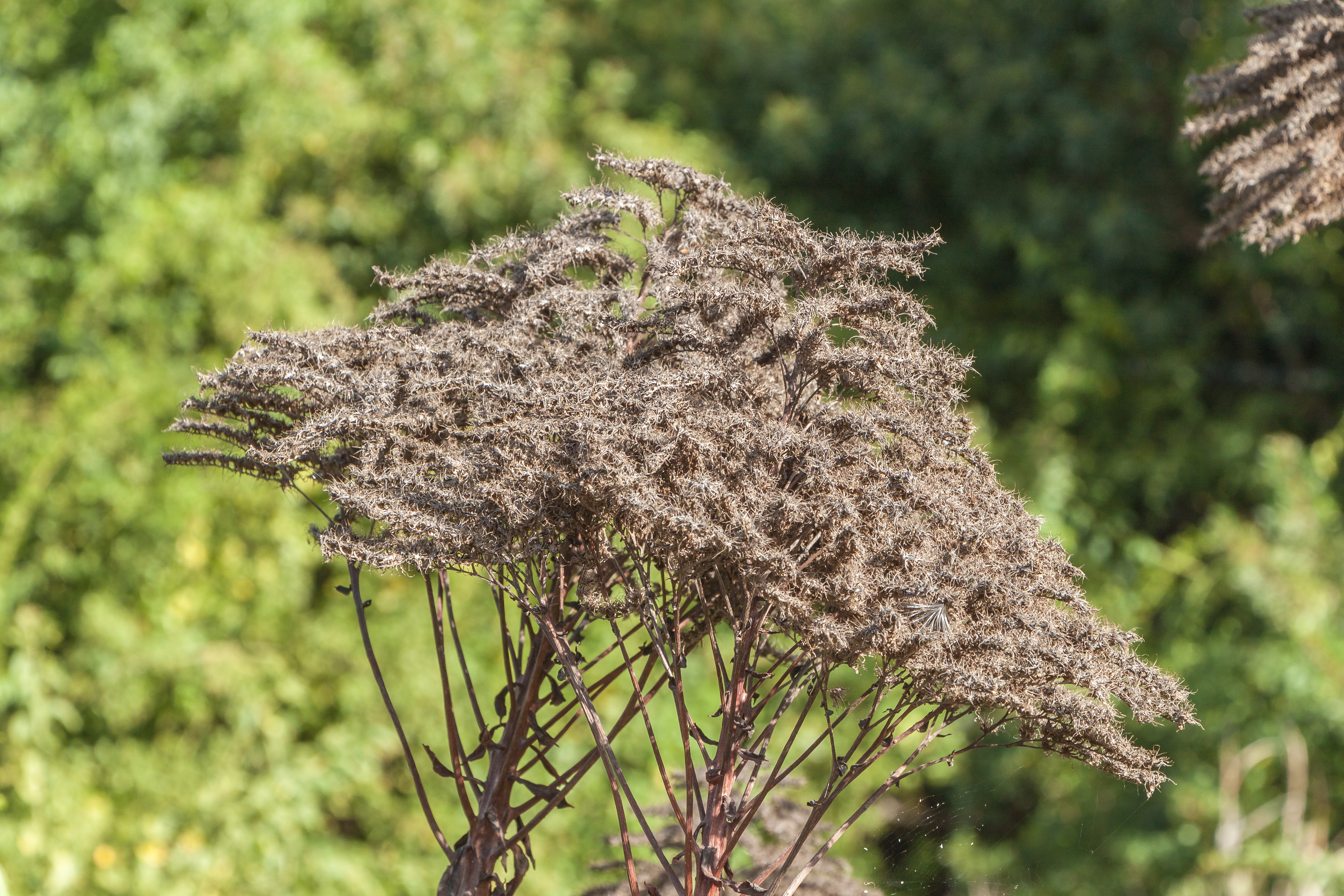 valverdense (Praeger) Praeger; inflorescence; Jardín Botánico Canario Viera y Clavijo, Gran Canaria, Canary Islands, Spain.